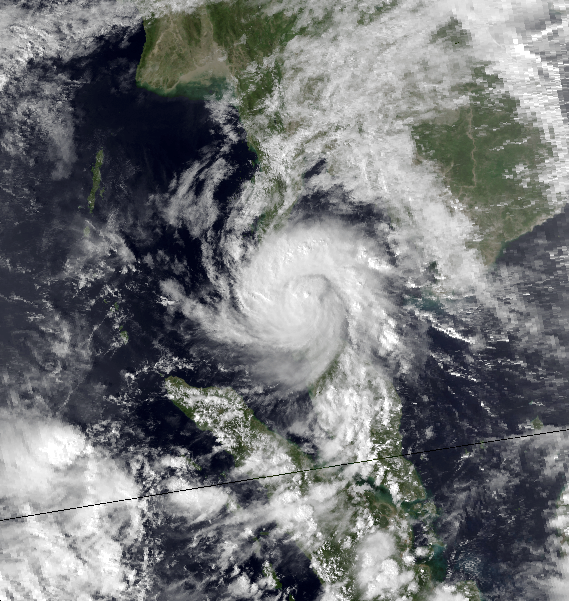 Tropical Storm Forrest on November 15, 1992